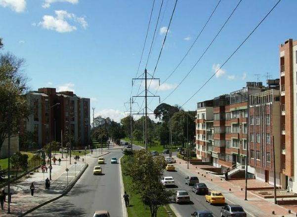 Avenue Calle 53 in Bogotá.